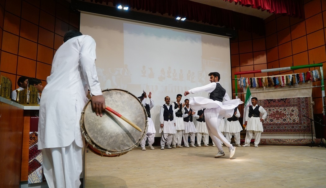 The hand-woven carpets produced in the southeastern Iranian region of Sistan have been registered internationally by the World Intellectual Property Organization. read more